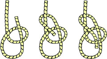 Illustration of tying a bowline knot.